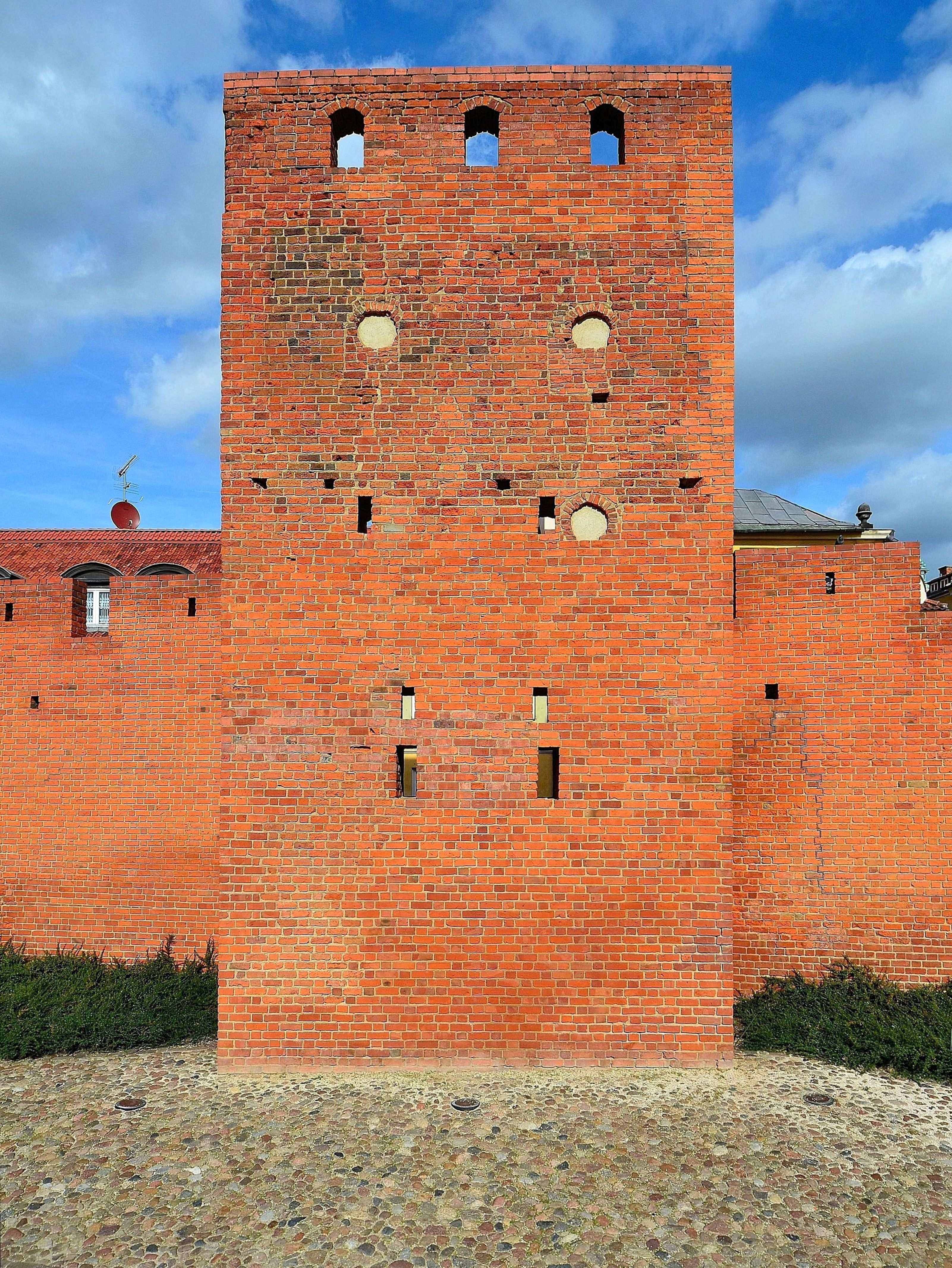 Knight's Tower, a part of the inner defensive wall of the Old Town in Warsaw (listed in the Register of Historic Monuments on 1.07.1965, reference no. 336/2)